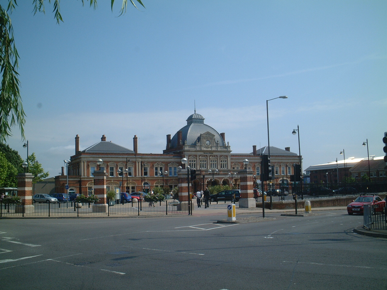 The railway station in Norwich, England. Photo taken on a FujiFilm Finepix 40i digital camera by Paul Hayes in 2005, and uploaded to Wikimedia by same.